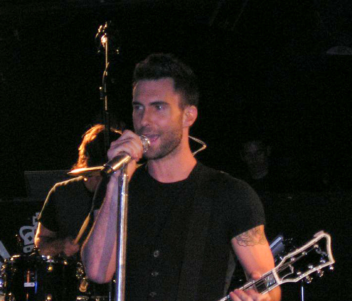 Adam Levine from Maroon 5